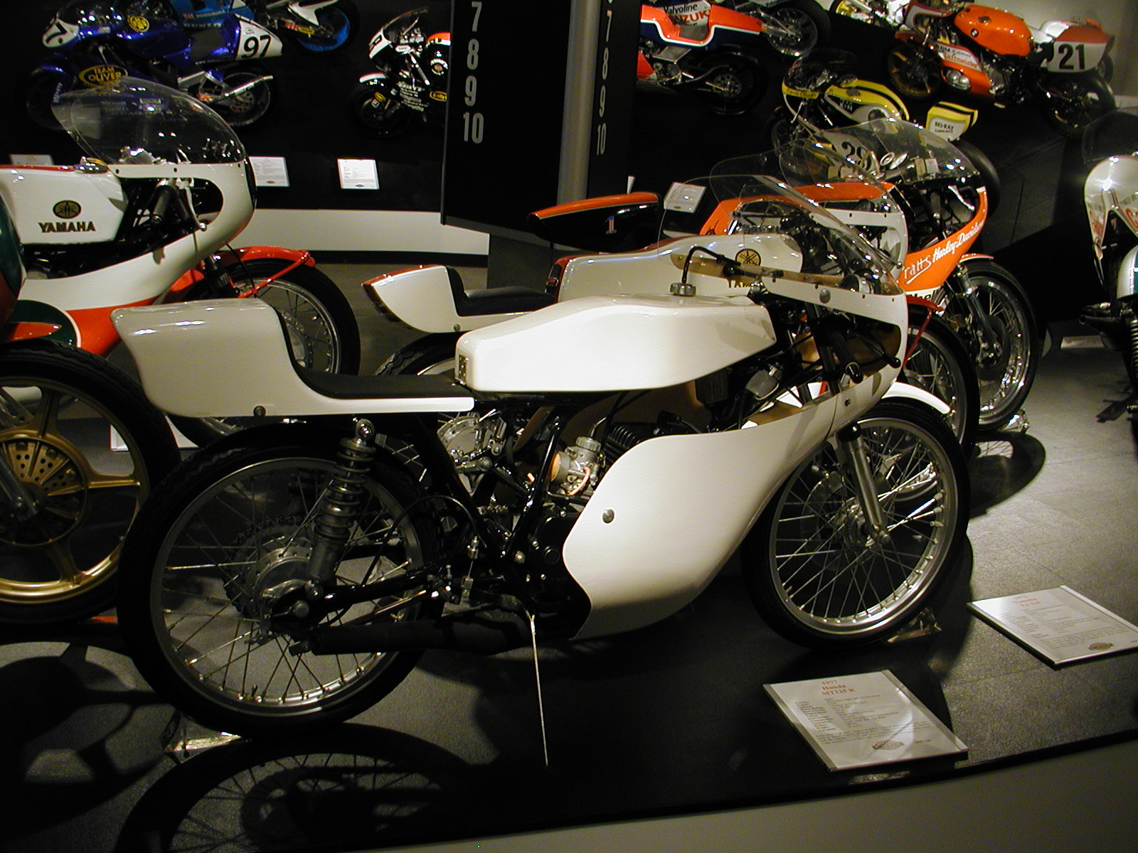 Barber Motorcycle Museum - Oct 22 2006 (137) Honda MT125R / More Description is here